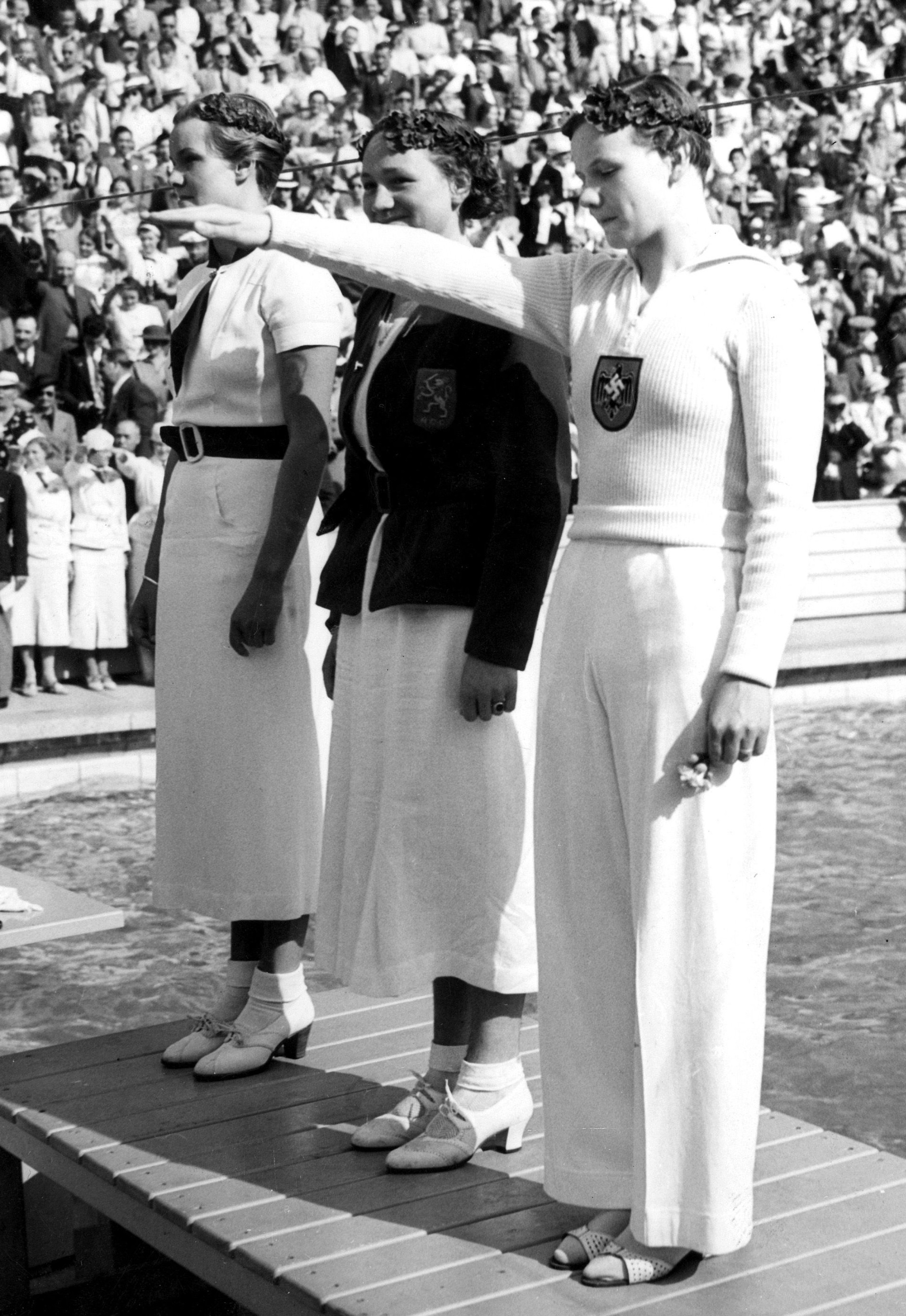 The podium of 100 m freestyle at the 1936 Olympic Games: Jeannette Campbell (Argentine, silver), Rie Mastenbroek (Netherlands, gold), and Gisela Arendt (Germany, bronze).